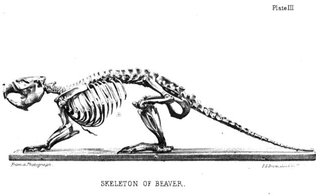 An illustration of a beaver skeleton.